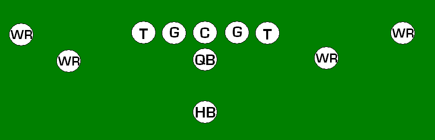 Ace spread green